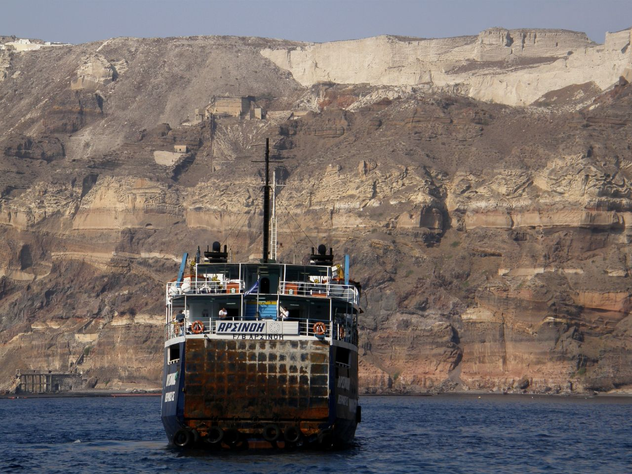 F/B Arsinoi departing Athinios Port of Santorini. Photo taken on 03.10.2007